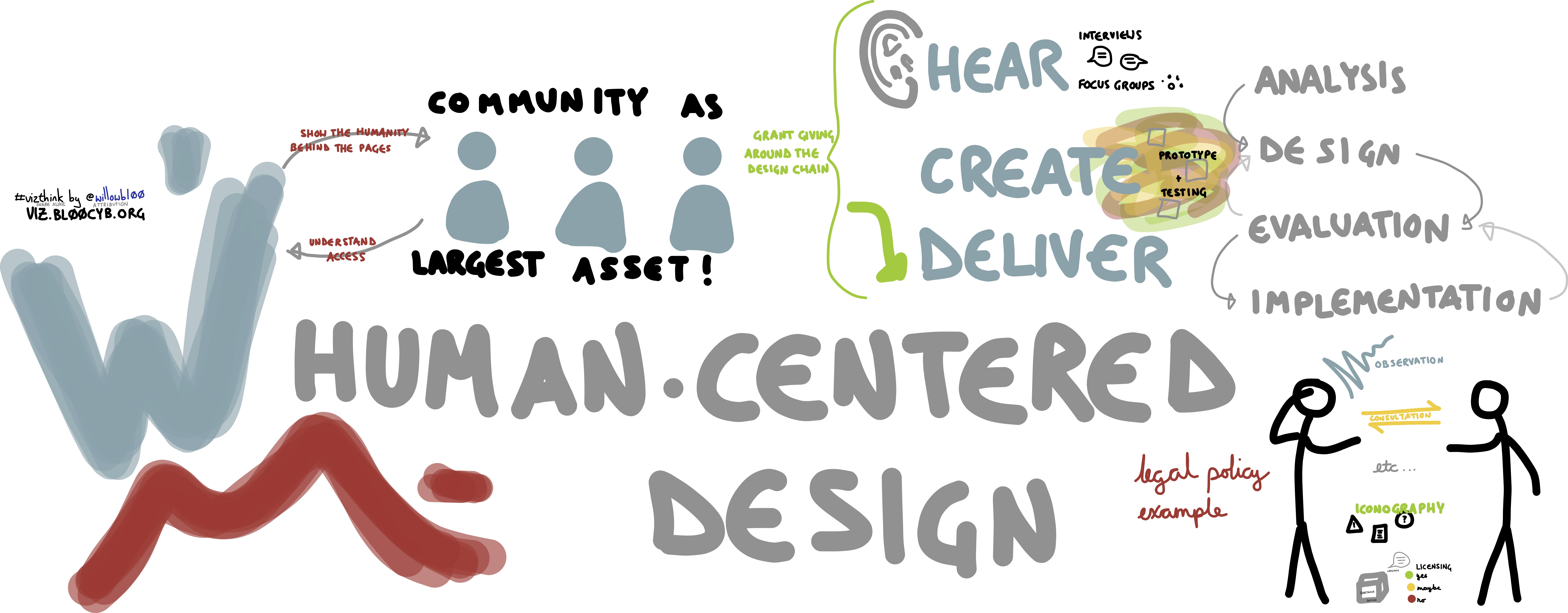 vizthink for session at Wikimania 2014